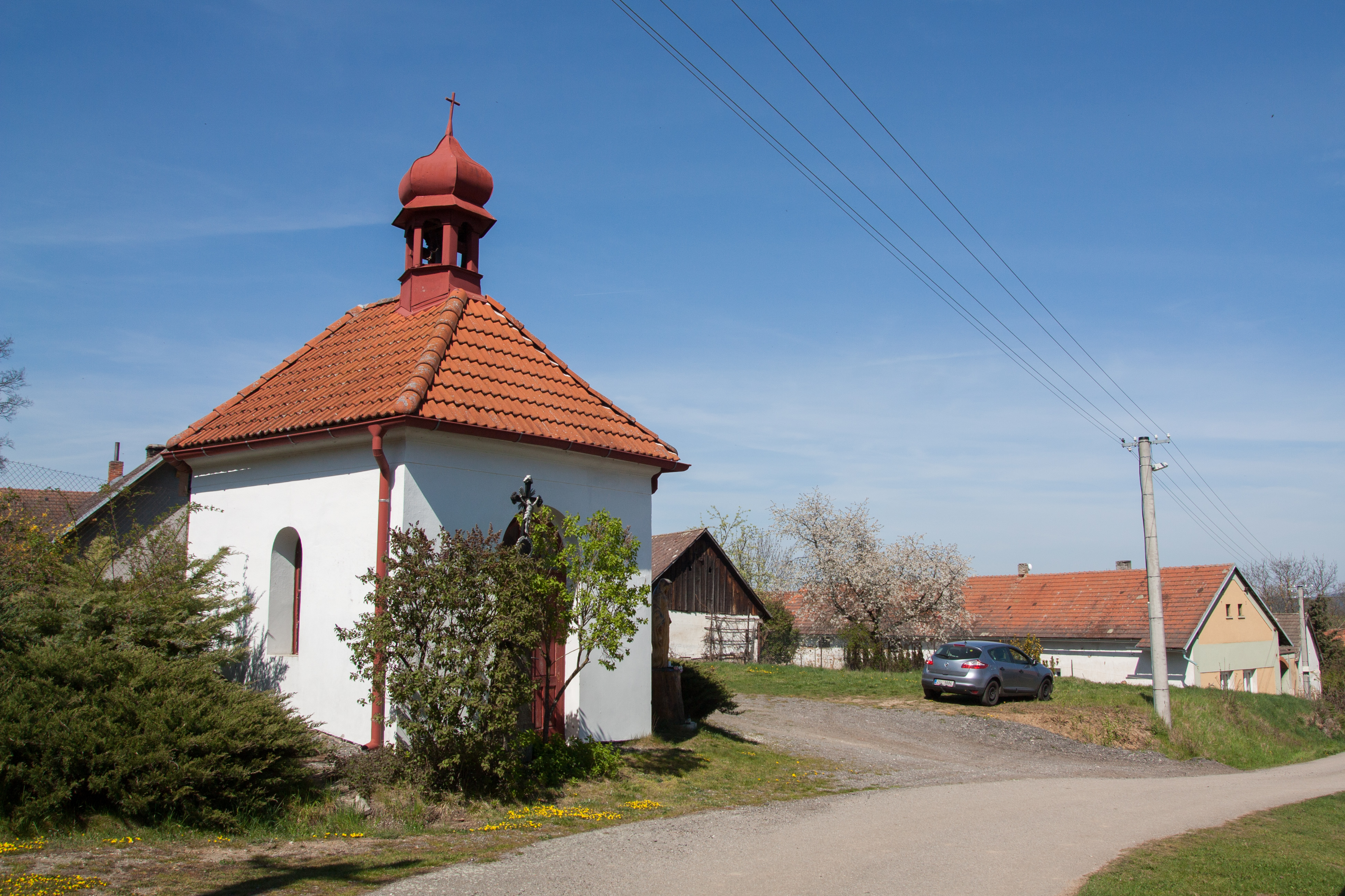 Chapel in municipality Buková, Tábor District, South Bohemian Region, Czechia